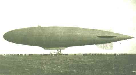 Parseval PL 25